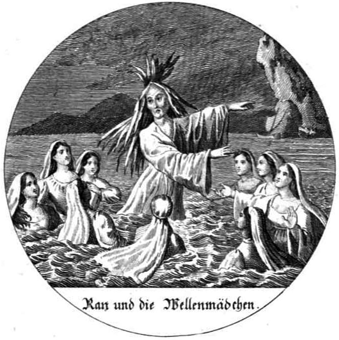 "Rán and the Wave Girls"). Artist uncredited in work. This image was taken from a low quality PDF source, please replace with a higher quality version if possible.